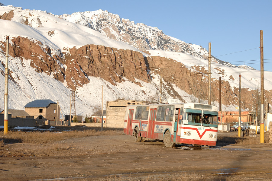 ZiU-9 007 in Naryn (depot)